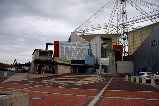 The National Football Museum in Preston